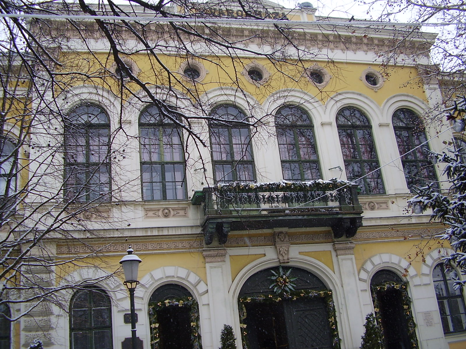 Town hall